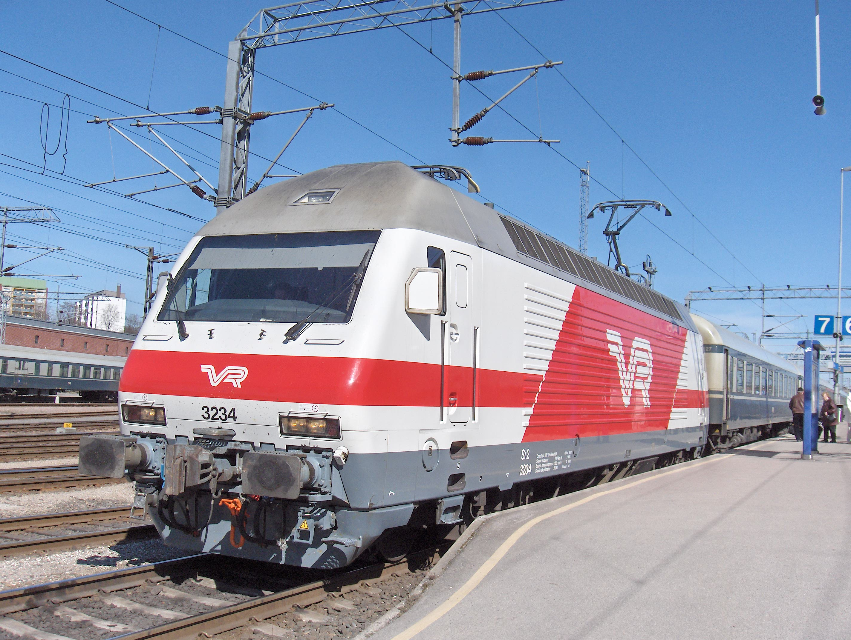 VR class Sr2 electric locomotive no. 3234 at Turku Railway Station in Turku, Finland